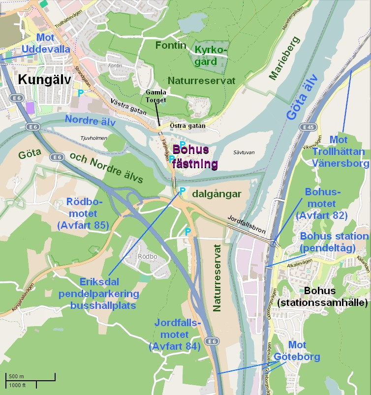 Map covering the area around Bohus Fortress, Kungälv, Sweden.